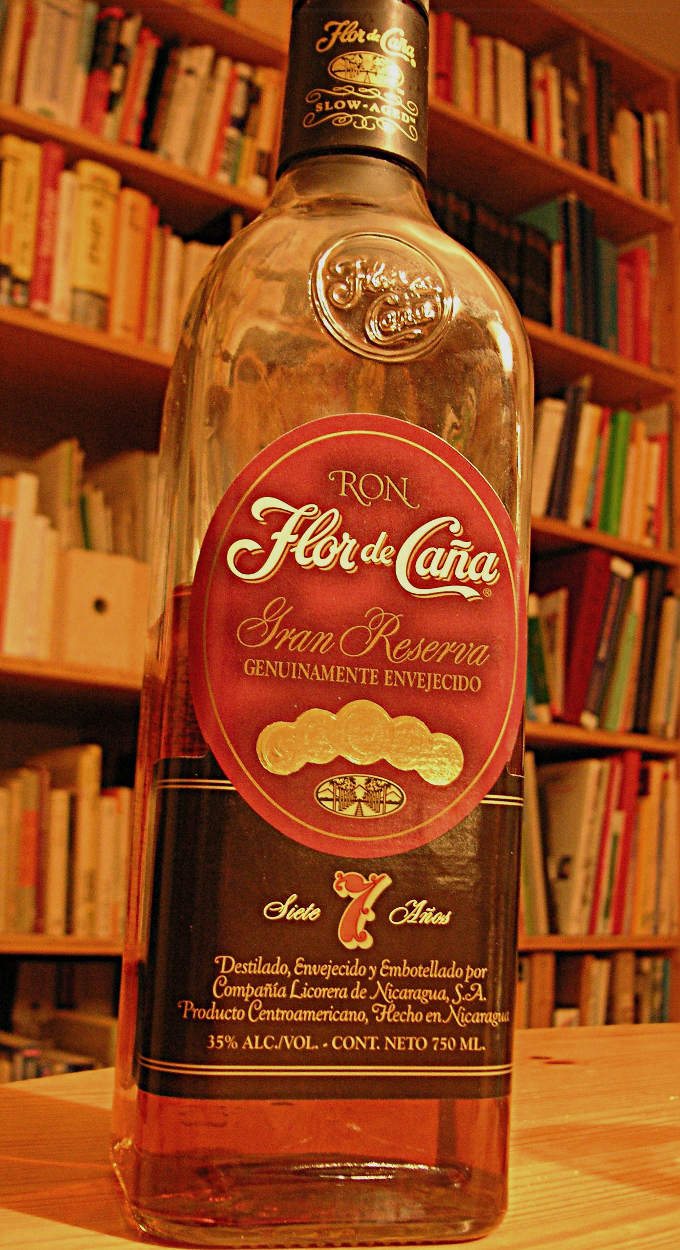 A bottle of Flor de Cana rum. Photo by KF, January 2006.